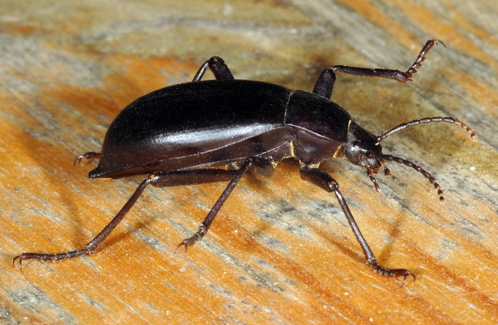 Blaps mortisaga, Nied, Frankfurt/Main, Germany